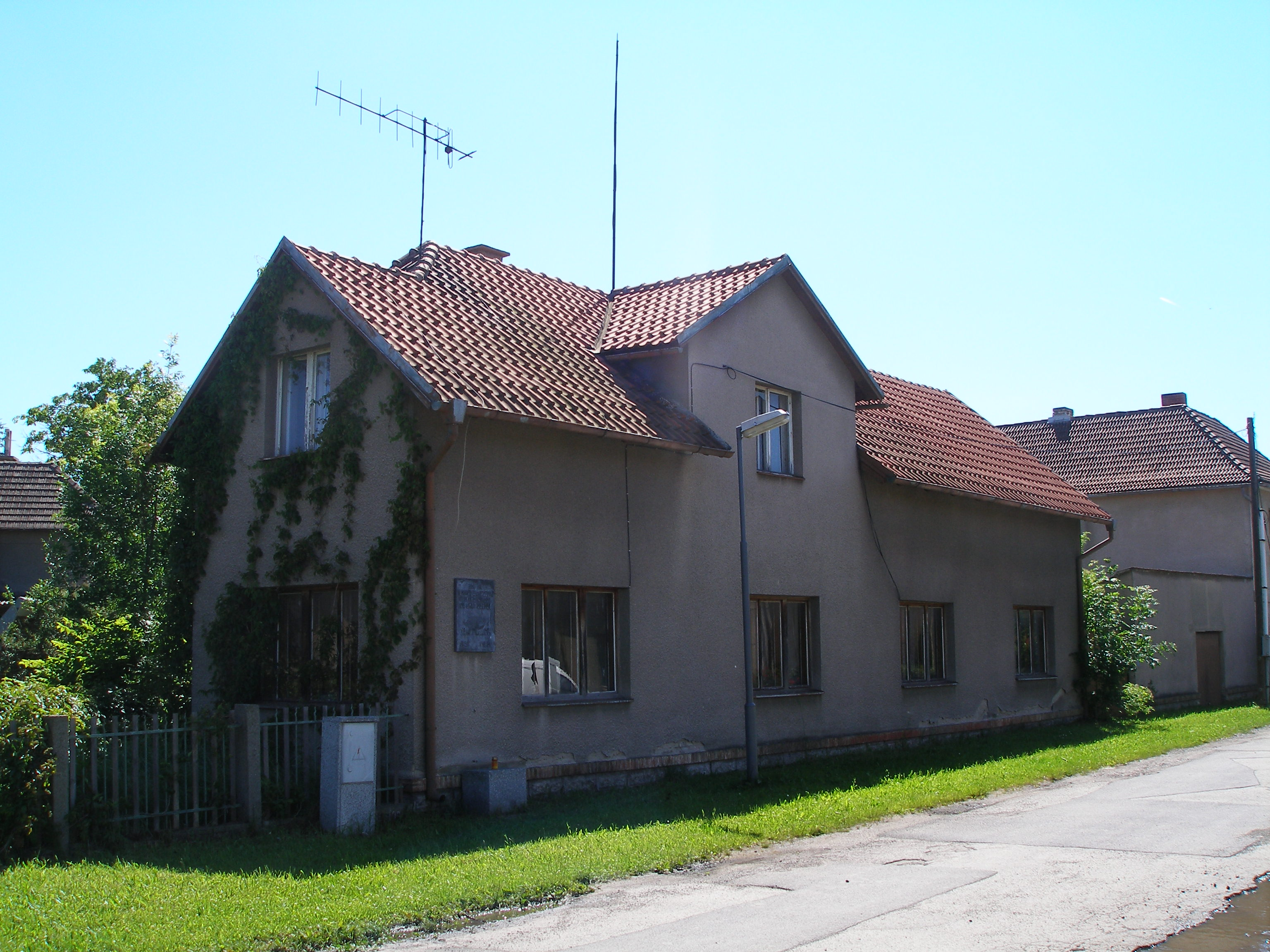 Jan Palach's native house, Všetaty, Czech Republic